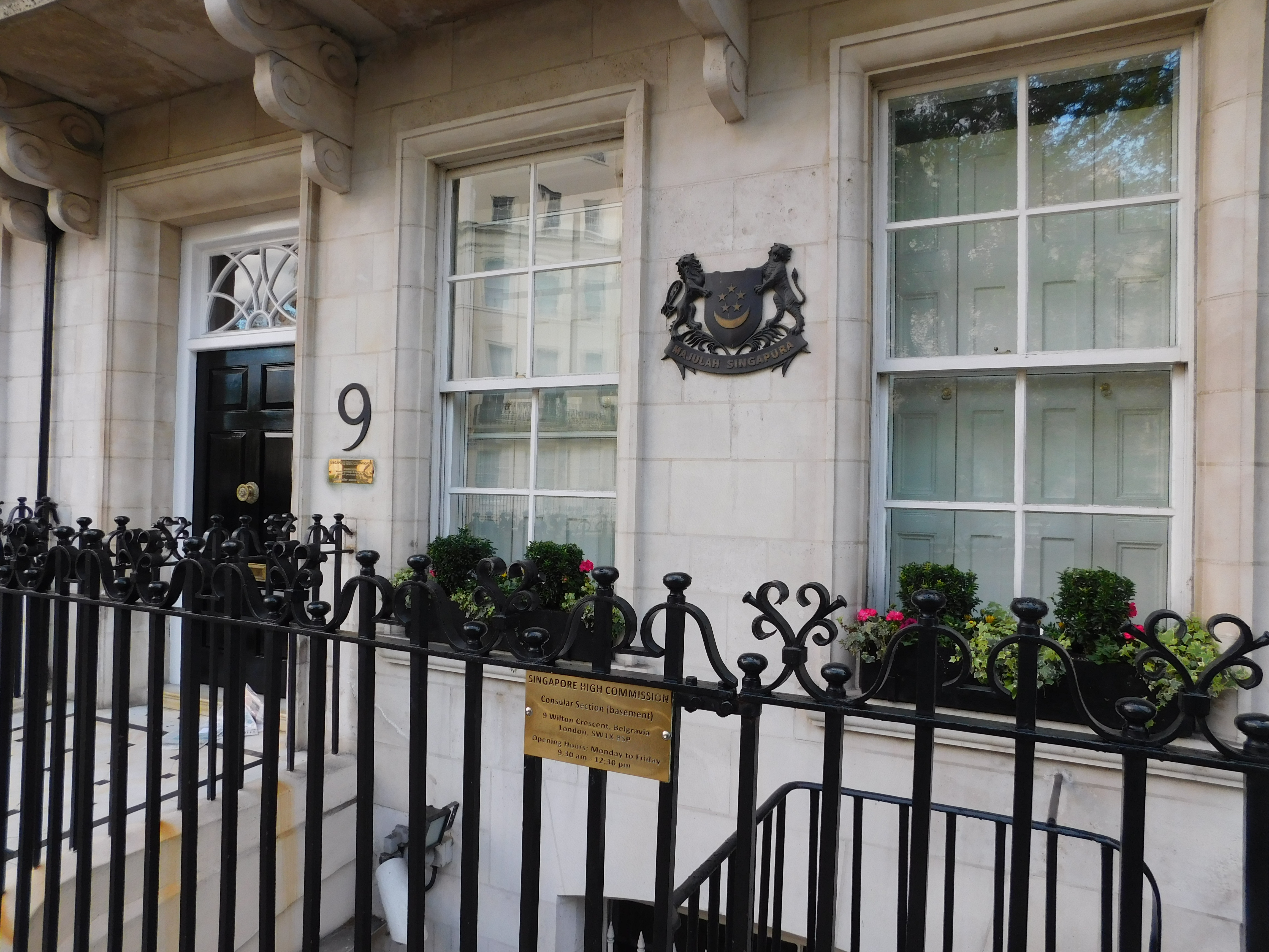 1-15, Wilton Crescent Sw1 Wikidata has entry Q26319091 with data related to this item. Number 9 - part of the terrace 1-15 Wilton Crescent.